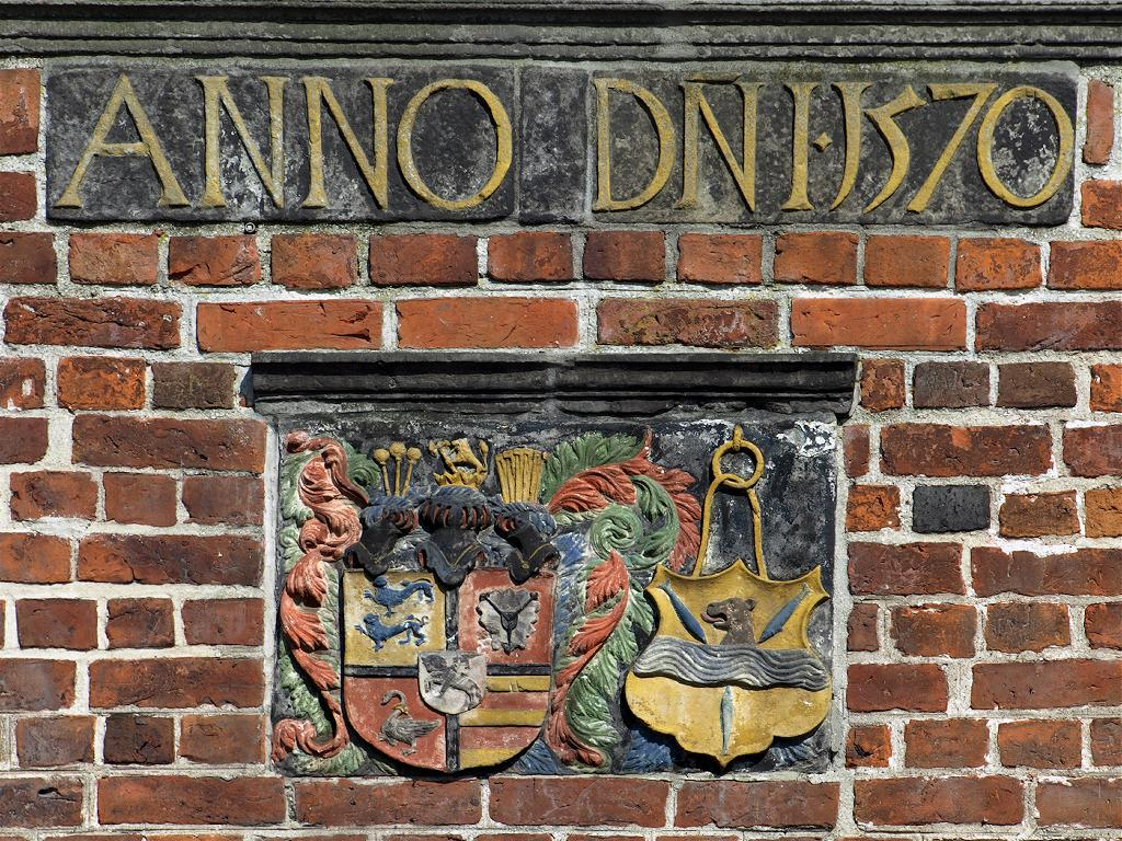 Krempe (Schleswig-Holstein, Germany),town hall, coat of arms , photo 2009